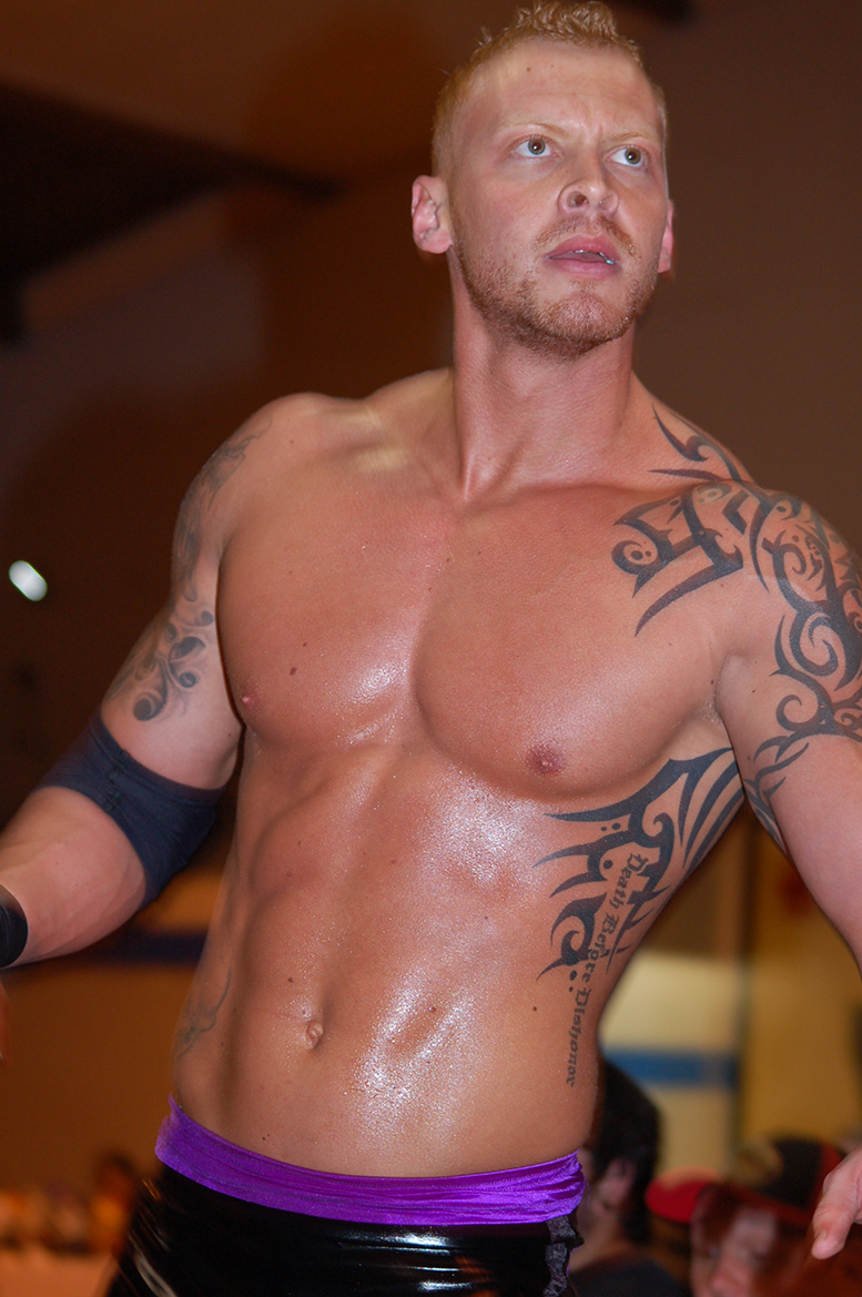 Photo I took of Tommy Mercer on May 15th 2010 in River Grove, IL at a Chicago Style Wrestling event.